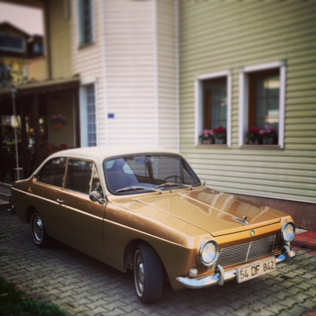 Araç Ege EKREN in aracıdır